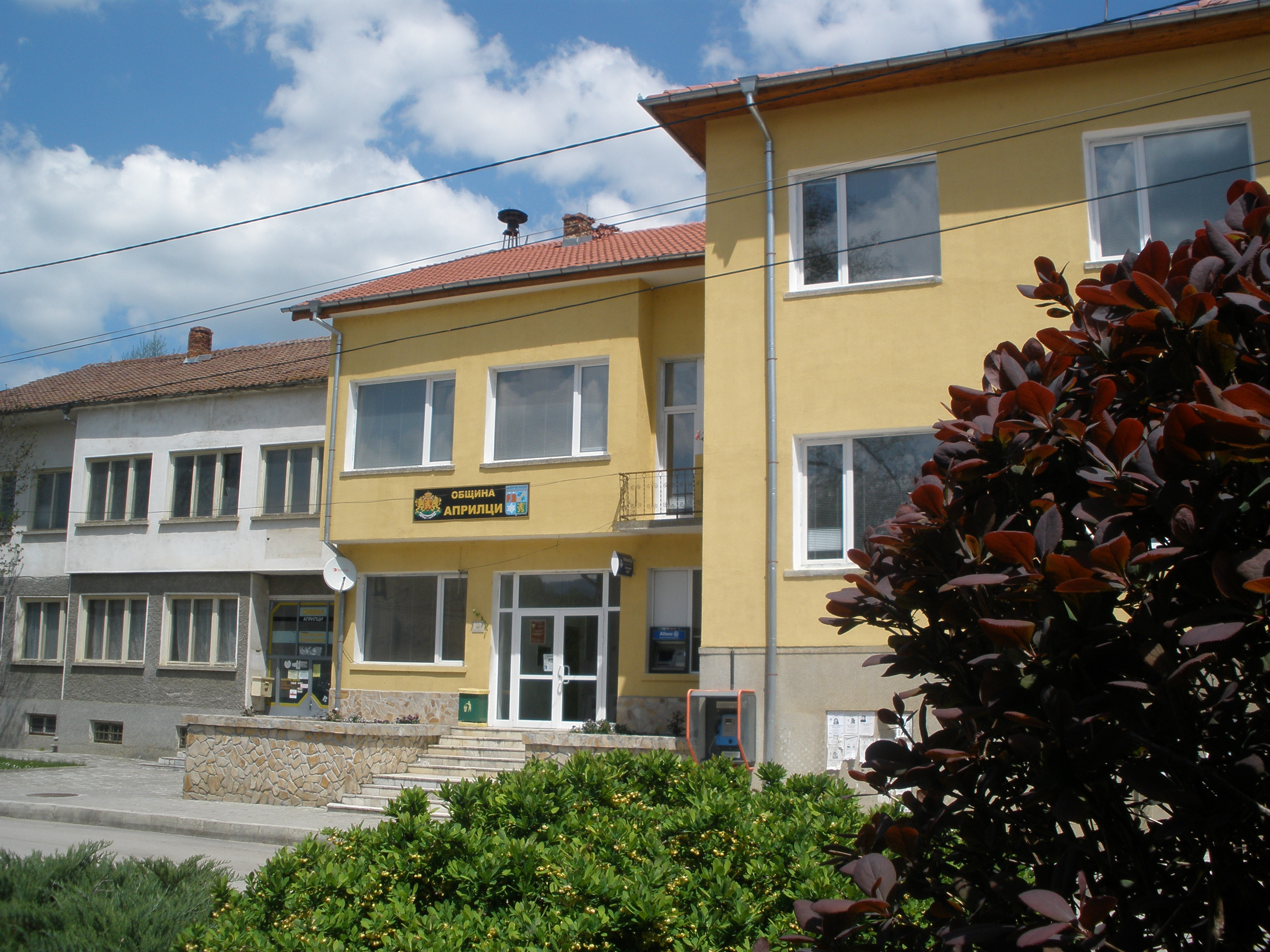 Apriltsi municipality